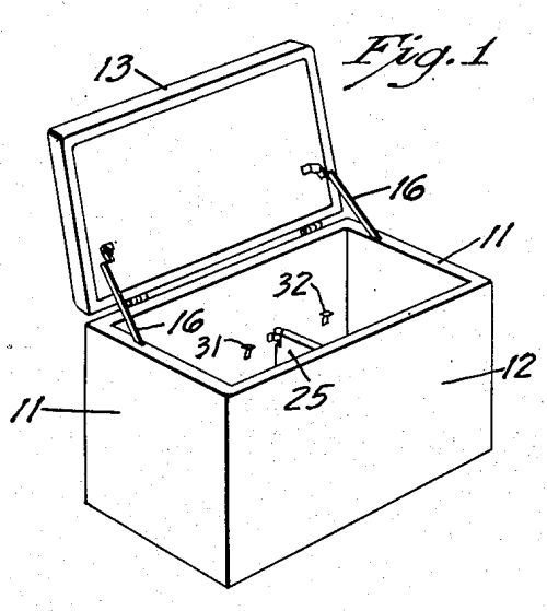 Portable Ice Chest, detail of patent drawing.